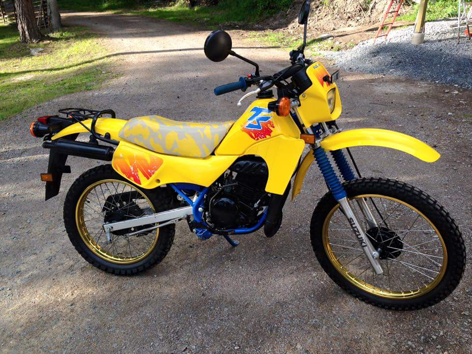 Picture on a yellow Suzuki TS50